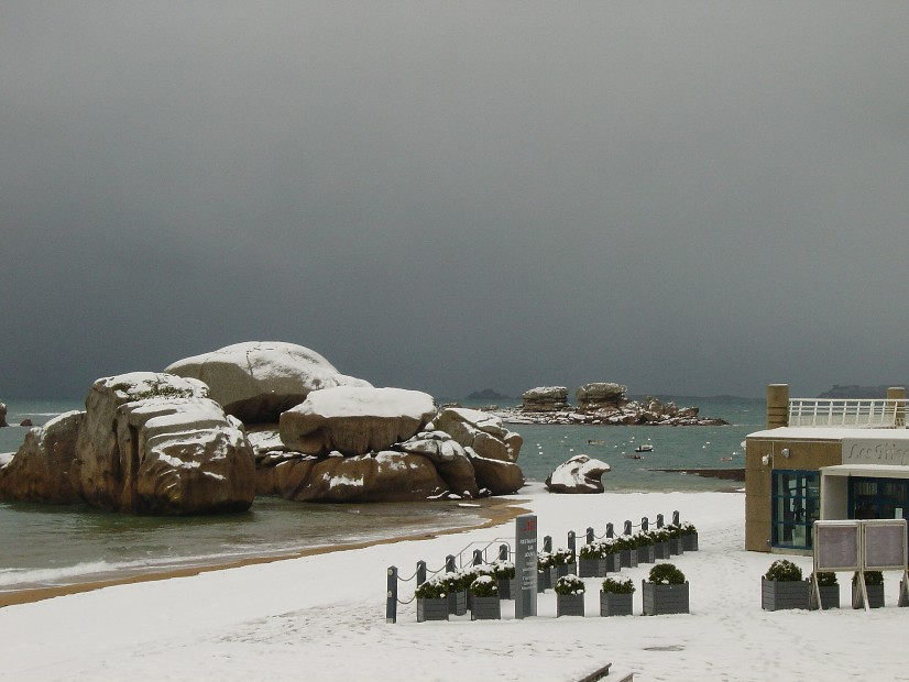 snow in Coz-pors december 2010